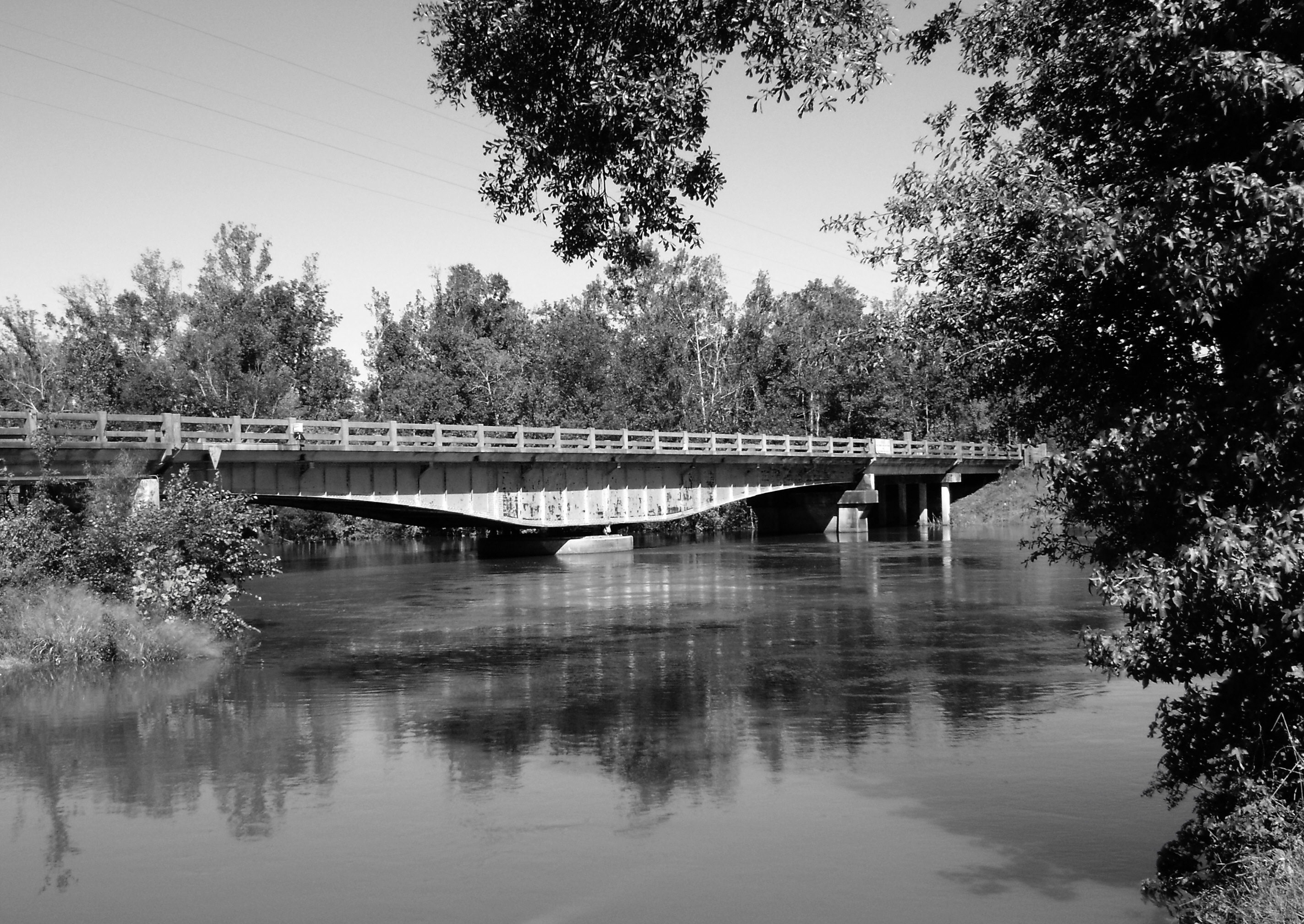 Black and white photograph of the NRHP-listed Deweyville Swing Bridge over the Sabine River, spanning the Texas-Louisiana border.